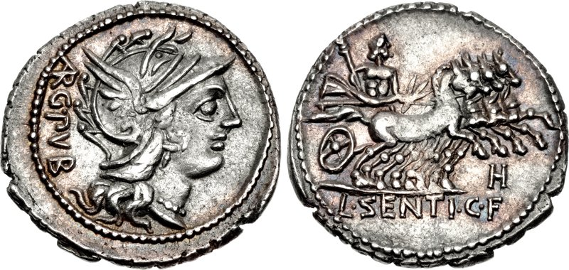 L. Sentius C.f. 101 BC. AR Denarius (21mm, 3.98 g, 12h). Rome mint. Helmeted head of Roma right / Jupiter driving galloping quadriga right, holding scepter, reins, and thunderbolt; H below horses. Crawford 325/1b; Sydenham 600; Sentia 1. Near EF, toned. Struck on a broad flan. Ex Hess-Divo 317 (27 October 2010), lot 586.